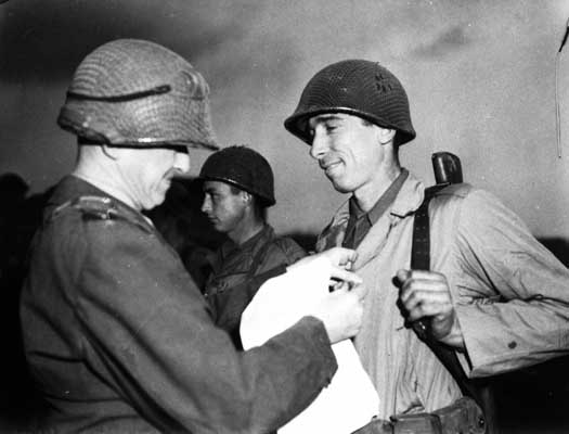 Sergeant Alexander Drabik, the first American soldier to cross the bridge at Remagen, receiving the Distinguished Service Cross for his heroism.